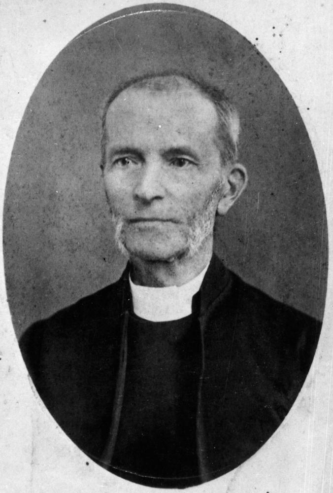 pioneer Anglican clergyman in Queensland, especially the Darling Downs area